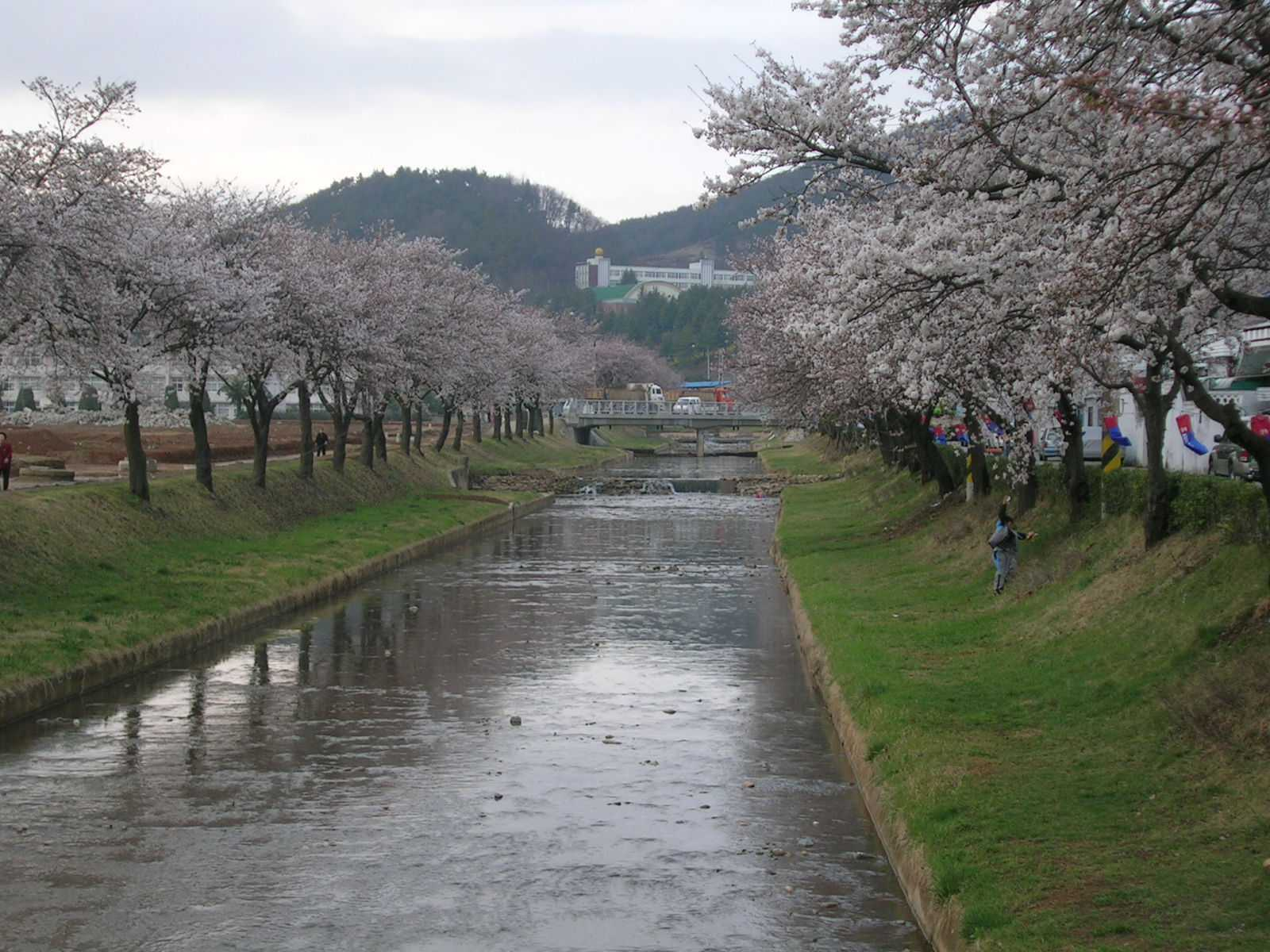 Mojeoncheon stream in Jeomchon, Mungyeong City, South Korea. Taken by User:Visviva in spring 2005.